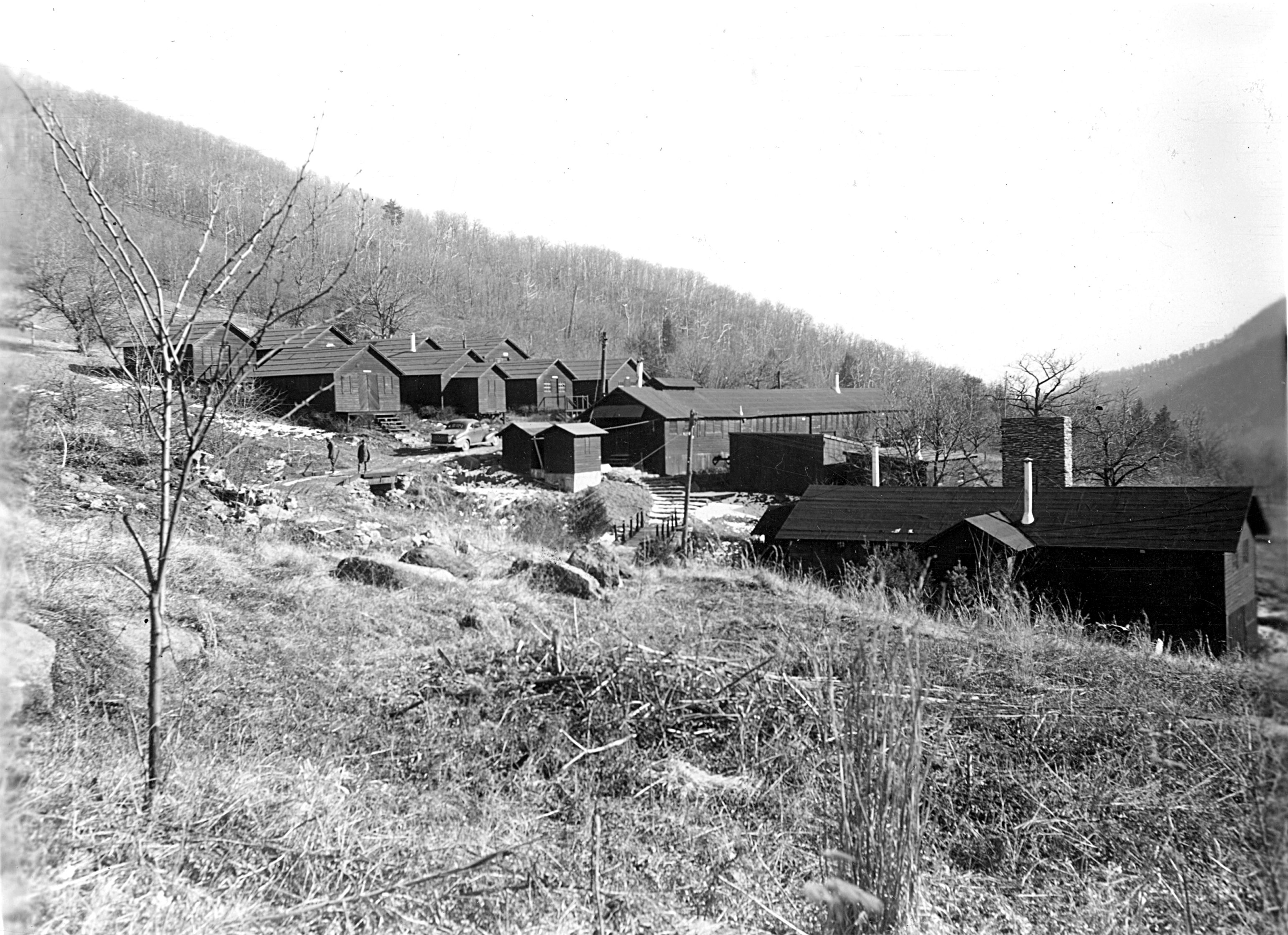 The Marine Camp that supported Herbert Hoover's Camp Rapidan in the Shenandoah Mountains